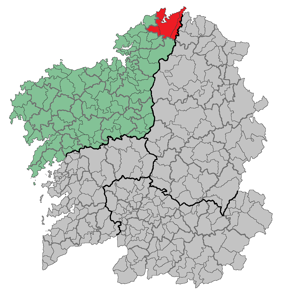 Region of Galicia (Spain) Based in: Image:Location of Ortigueira.png Source: Designed by Leoplus. Original picture, designed by Caiser over a work made by Alyssalover.